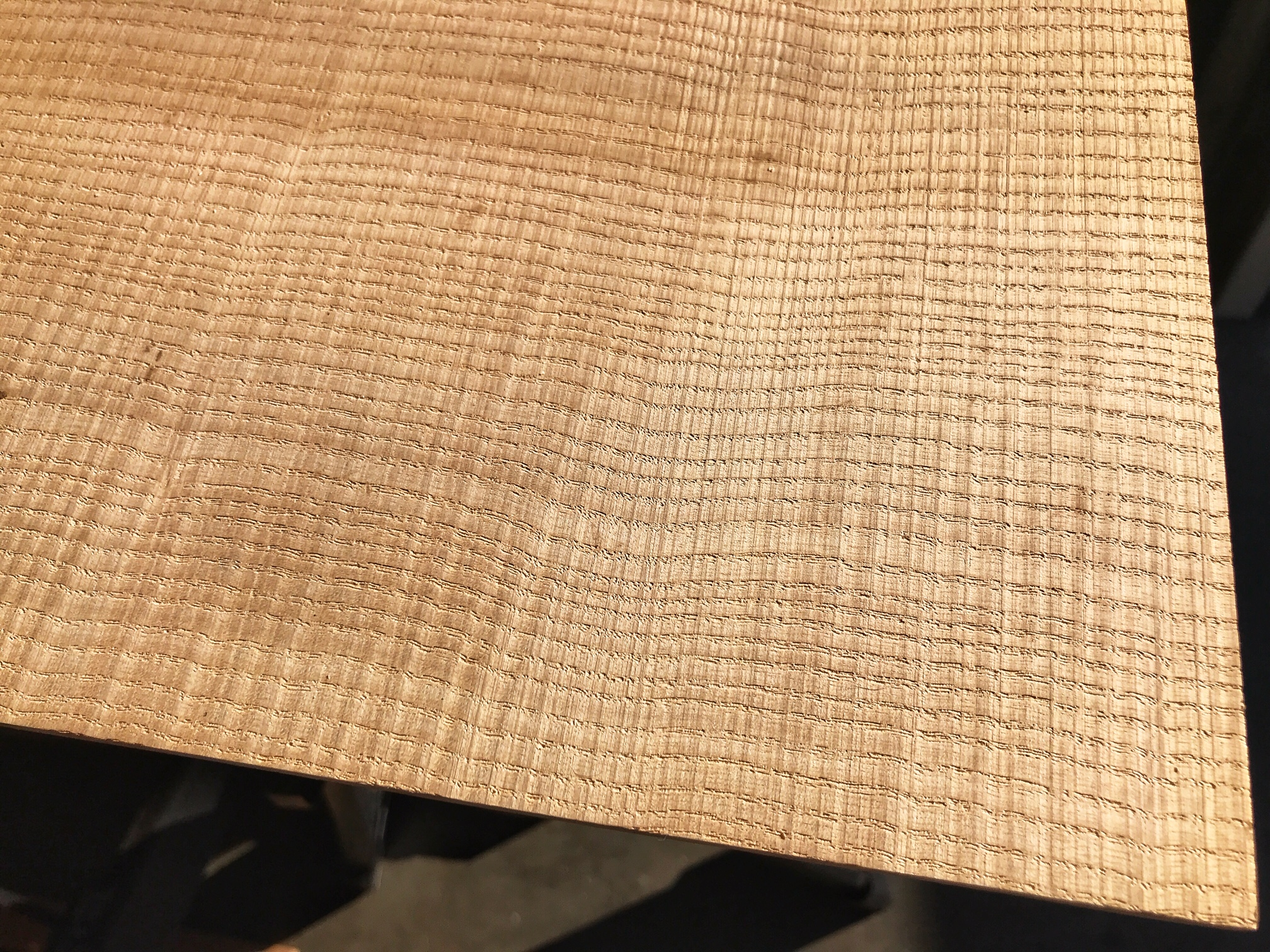 This is one side of a two piece bookmatched electric guitar top made from flame figured quartersawn Ash lumber.